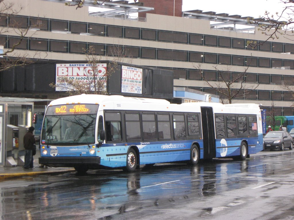 MTA New York City Bus #1200 picks up customers at the Bartow Plaza station on the Bx12 SBS route.